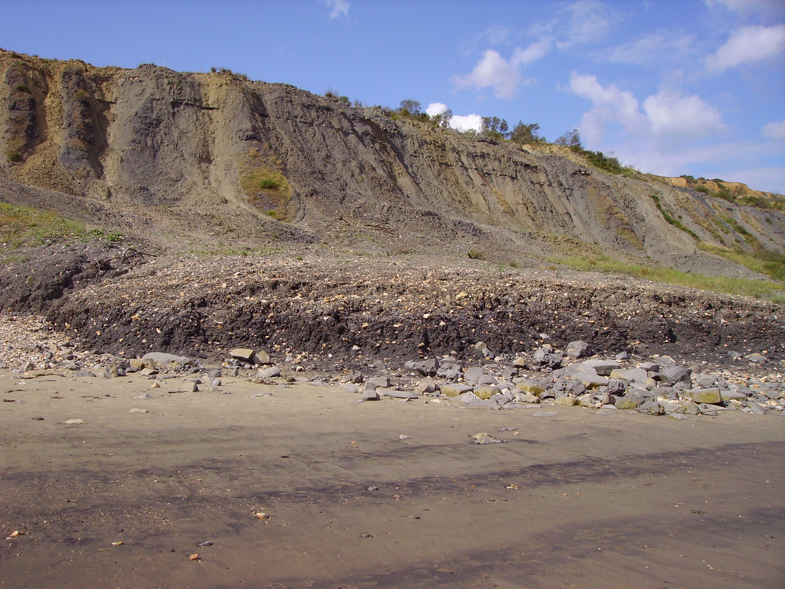 Landslip to the East of Lyme Regis, near Black Ven.